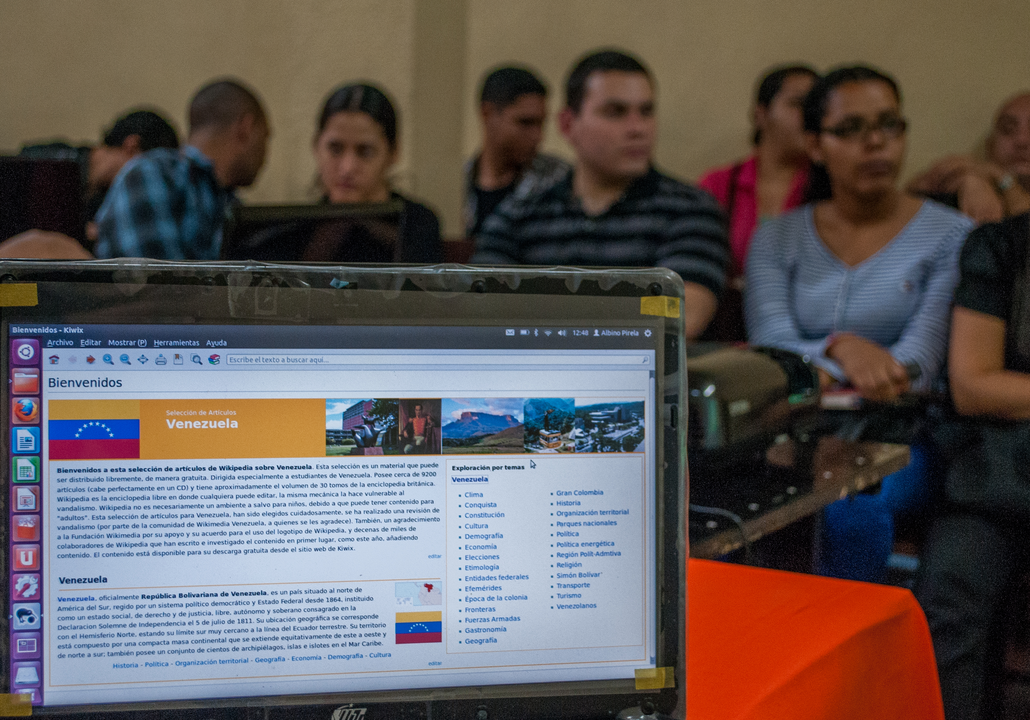 Kiwix and Encyclopedia of Venezuela in FLISOL 2013